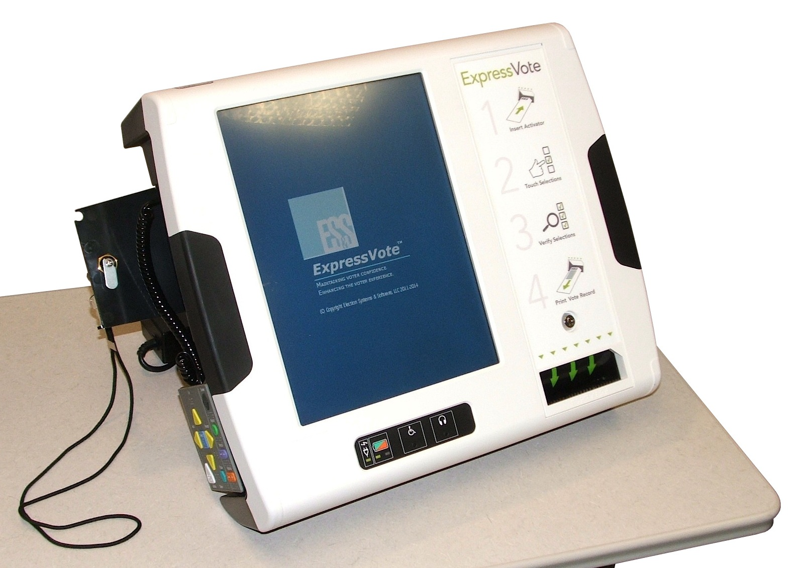 An electronic ballot marker, the ExpressVote made by Election Systems & Software. This prints an narrow Paper ballot containing a summary of votes cast in both human-readable and Bar code form for input to an 0ptical scan voting system. Voters using the Touch screen see an interface similar to a DRE voting machine, while voters with disabilities may use a variety of Assistive devices including audio output and the tactile keyboard tucked into the right side of the machine.